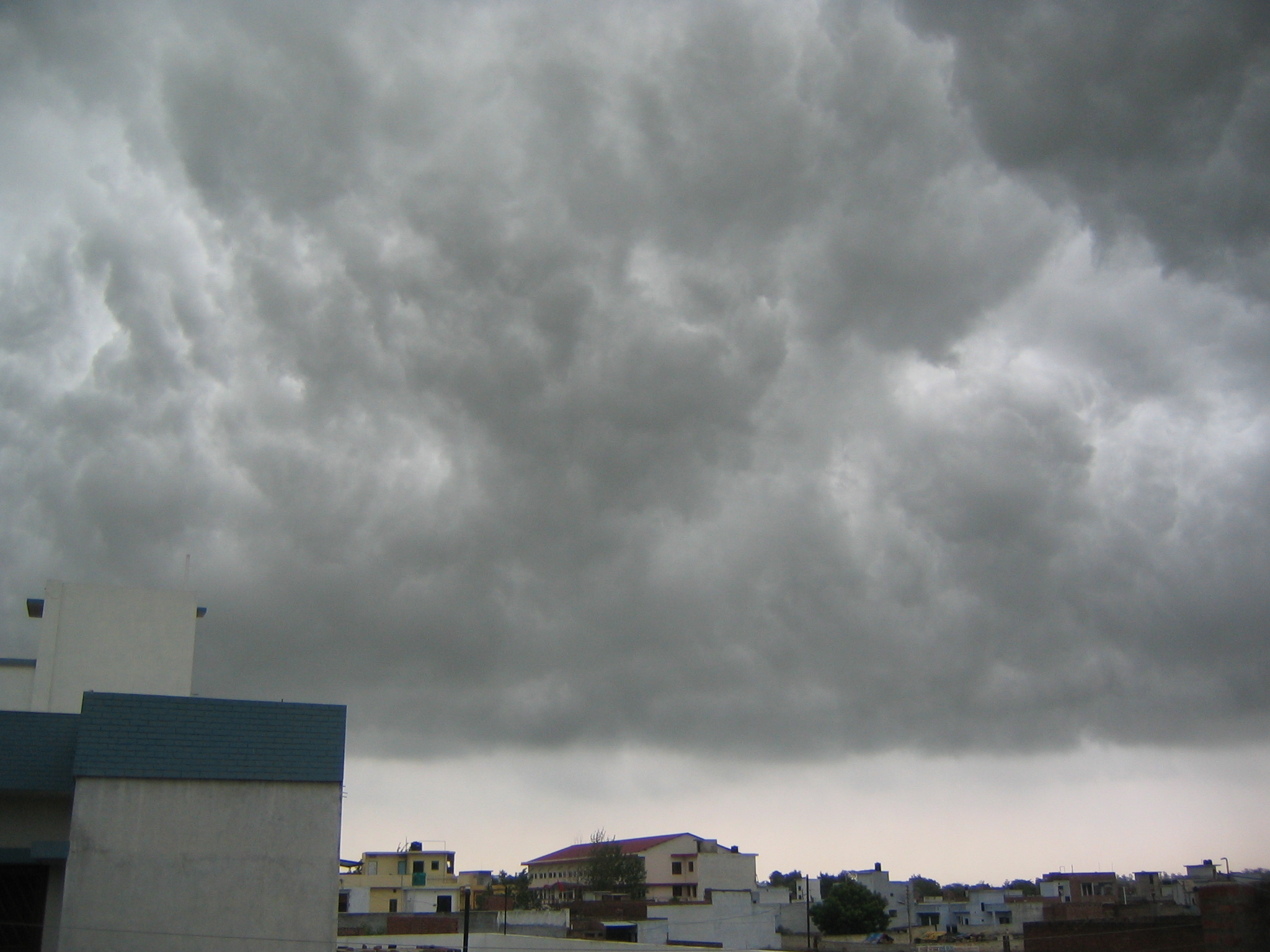 A photo of dark stormy clouds over the city of Lucknow,India. Photo was taken by me sunnyoraish Copyright- i the owner and taker of this picture give permission for it to be used on wikipedia by anyone and allow it to be edited mercilessly. Anyone is free to use this picture in any desired way.